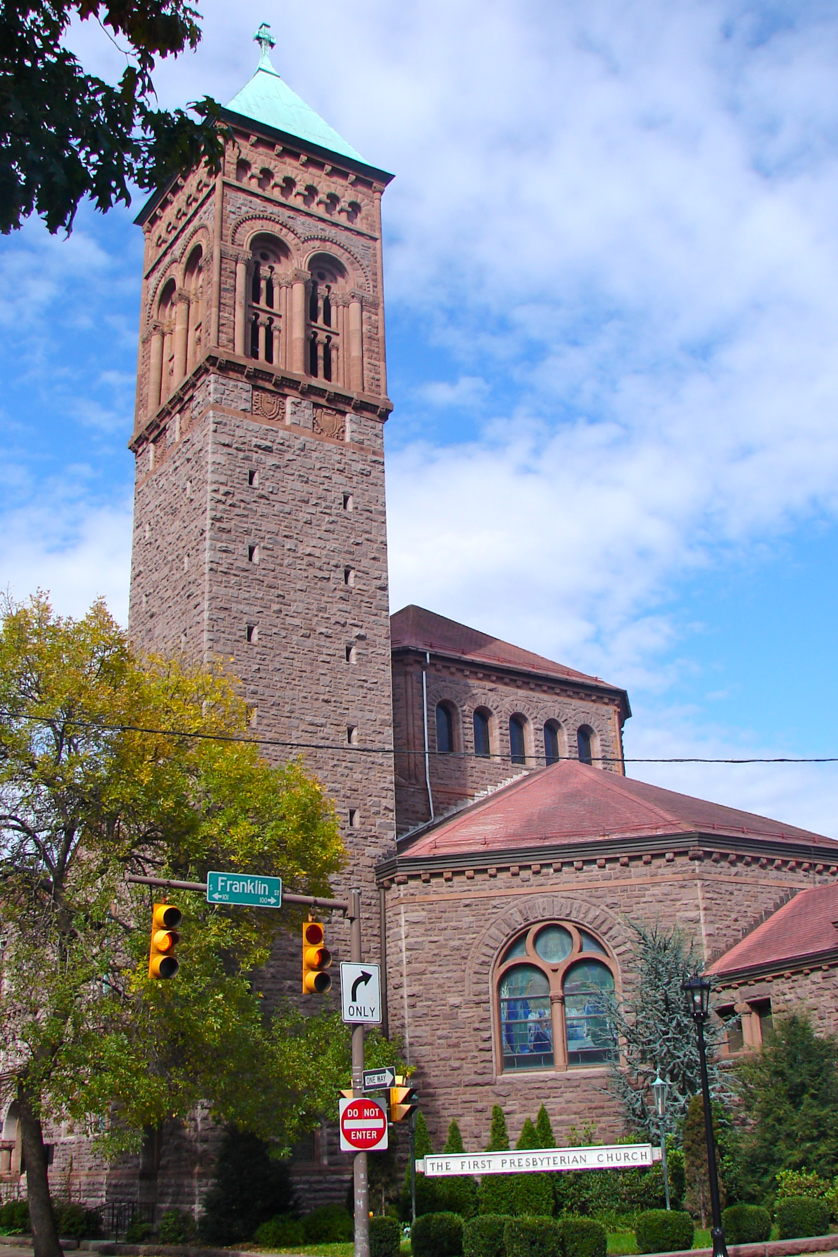 First Presbyterian Church on Franklin Street in Wilkes-Barre, Pennsylvania. Part of the River Street Historic District listed on the NRHP September 10, 1985. The Historic District includes Franklin, River, West River, West Jackson, West Union, West Market, West Northampton, West South and West Ross Streets and Barnum Place